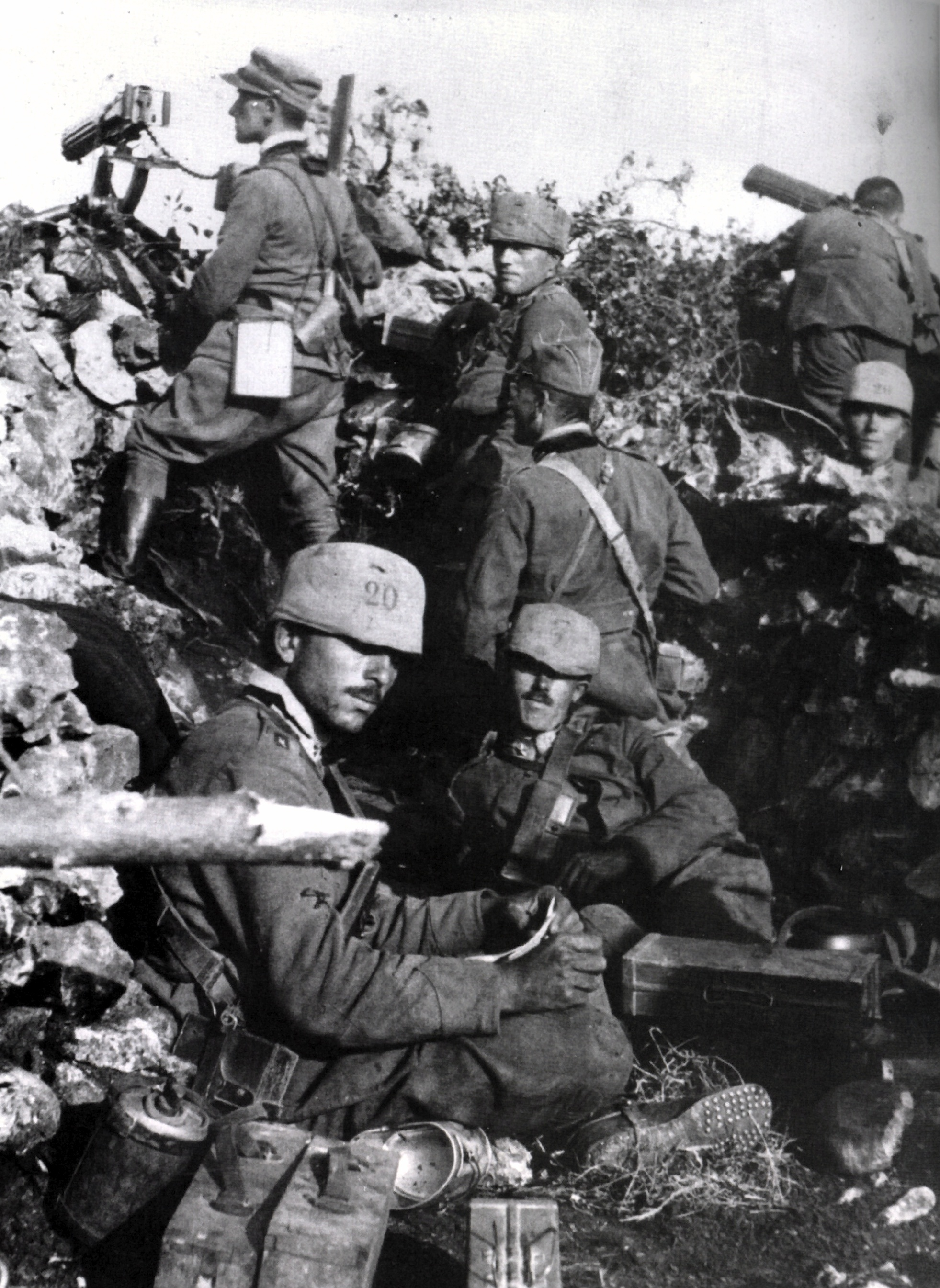 World War 1 - Italian Army: Second Battle of the Isonzo - 20th Cavalleggeri di Roma Cavalry Regiment position in the Carso